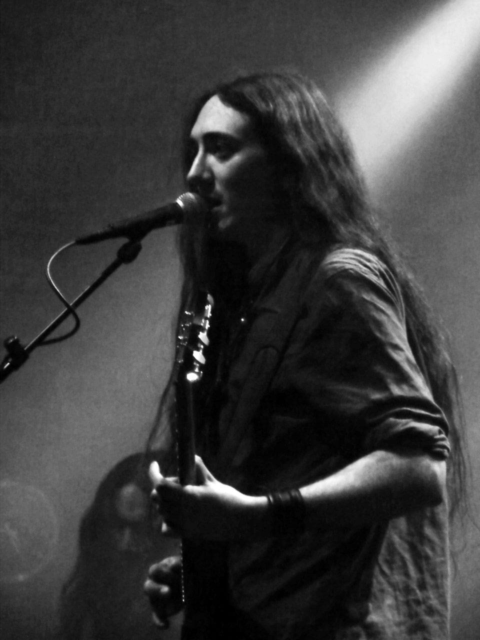 Neige of Alcest performing live at Roadburn 2011.